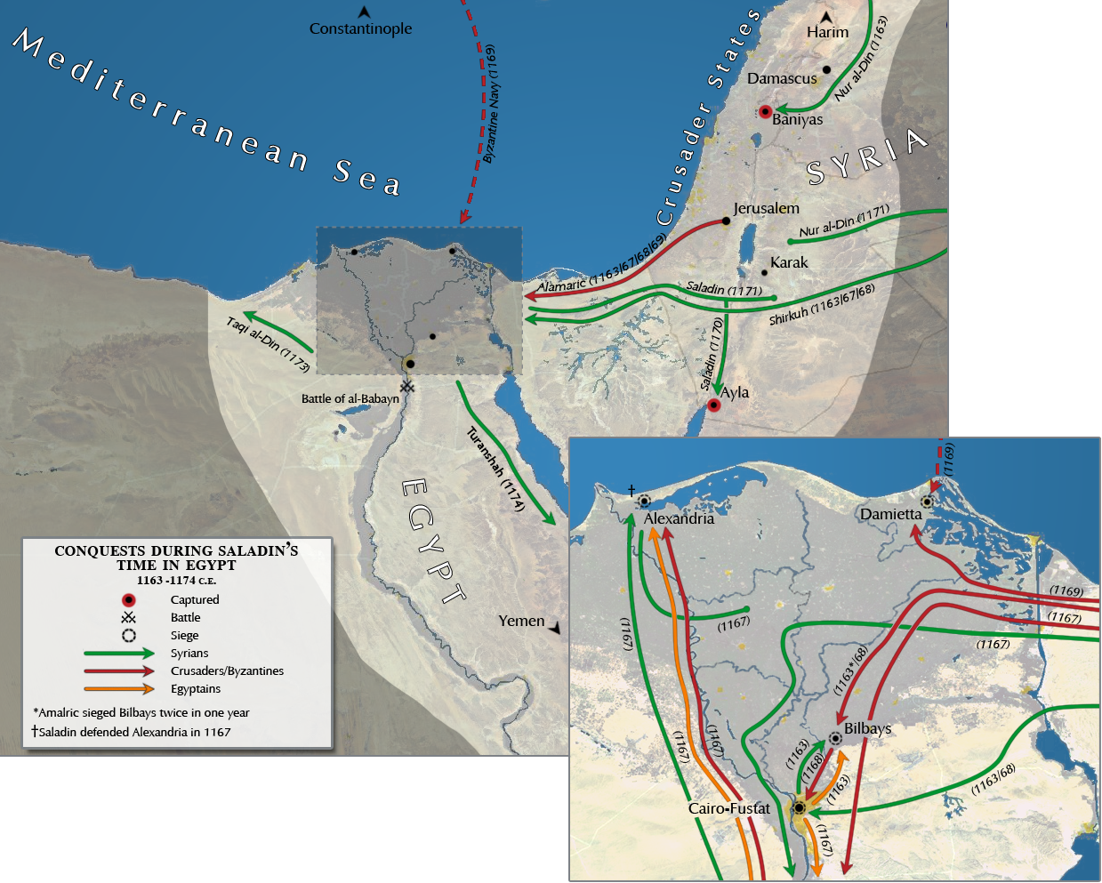 A map of conquest during the time of Saladin.